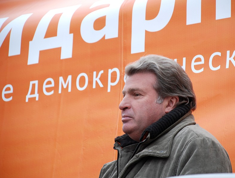 Russian journalist Alexandr Ryklin at Solidarnost meeting